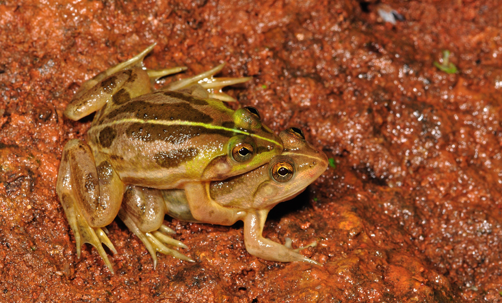 Euphlyctis aloysii in axillary amplexus DSC 7223 copy